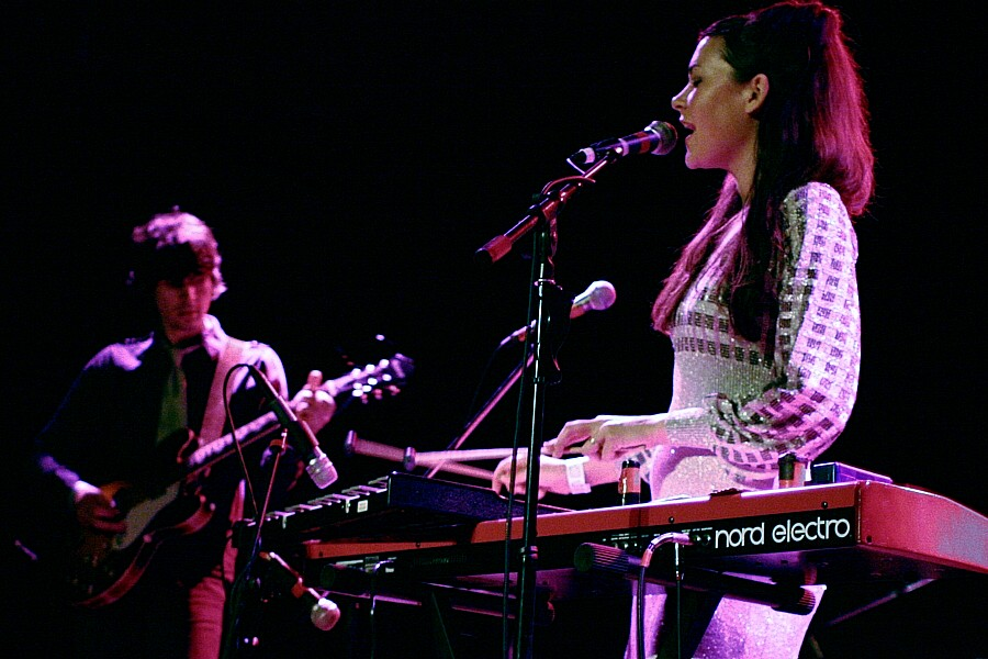 The Brunettes